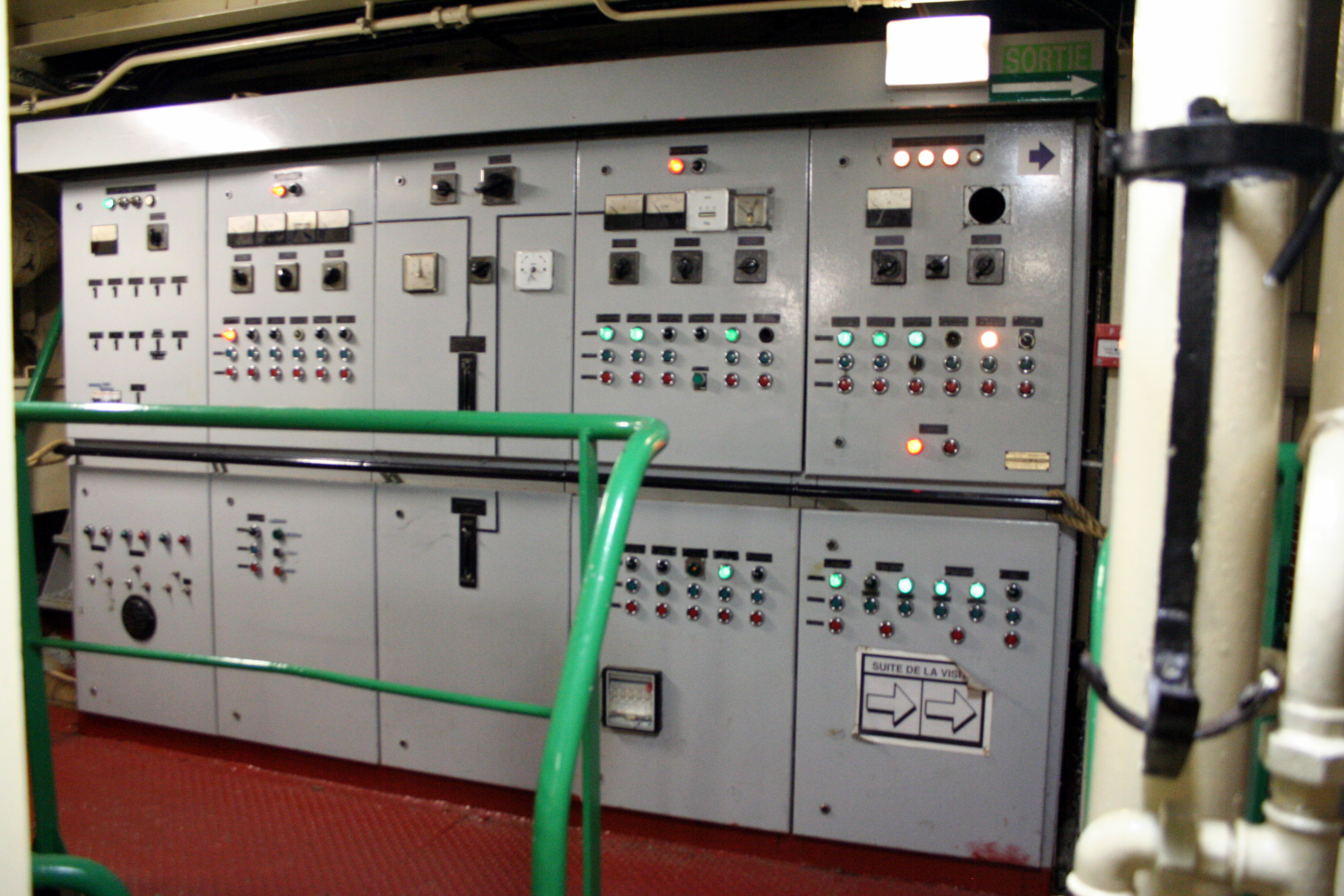 Switchboard in the engine room of the trawler Angoumois